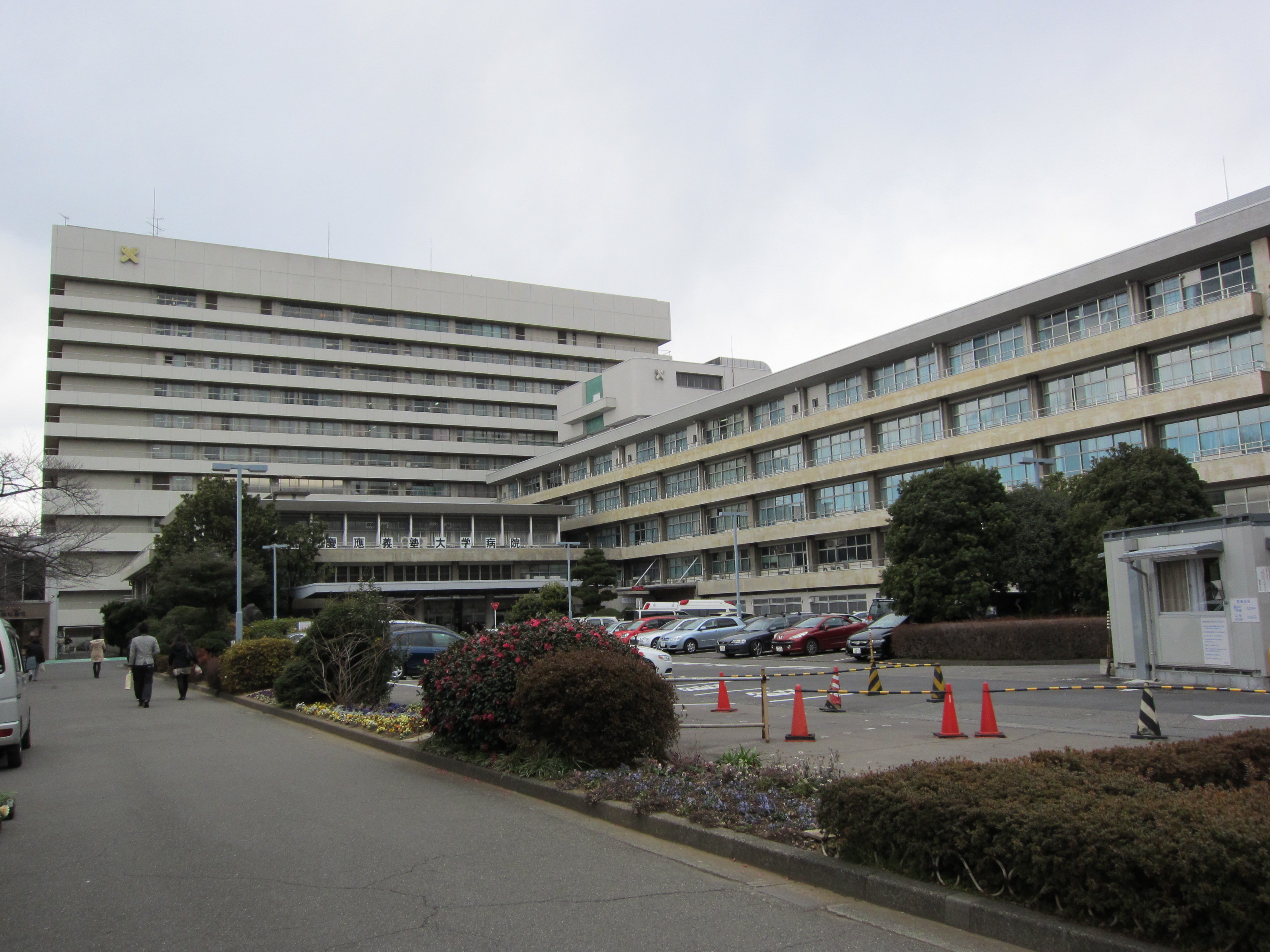 Keio University Hospital